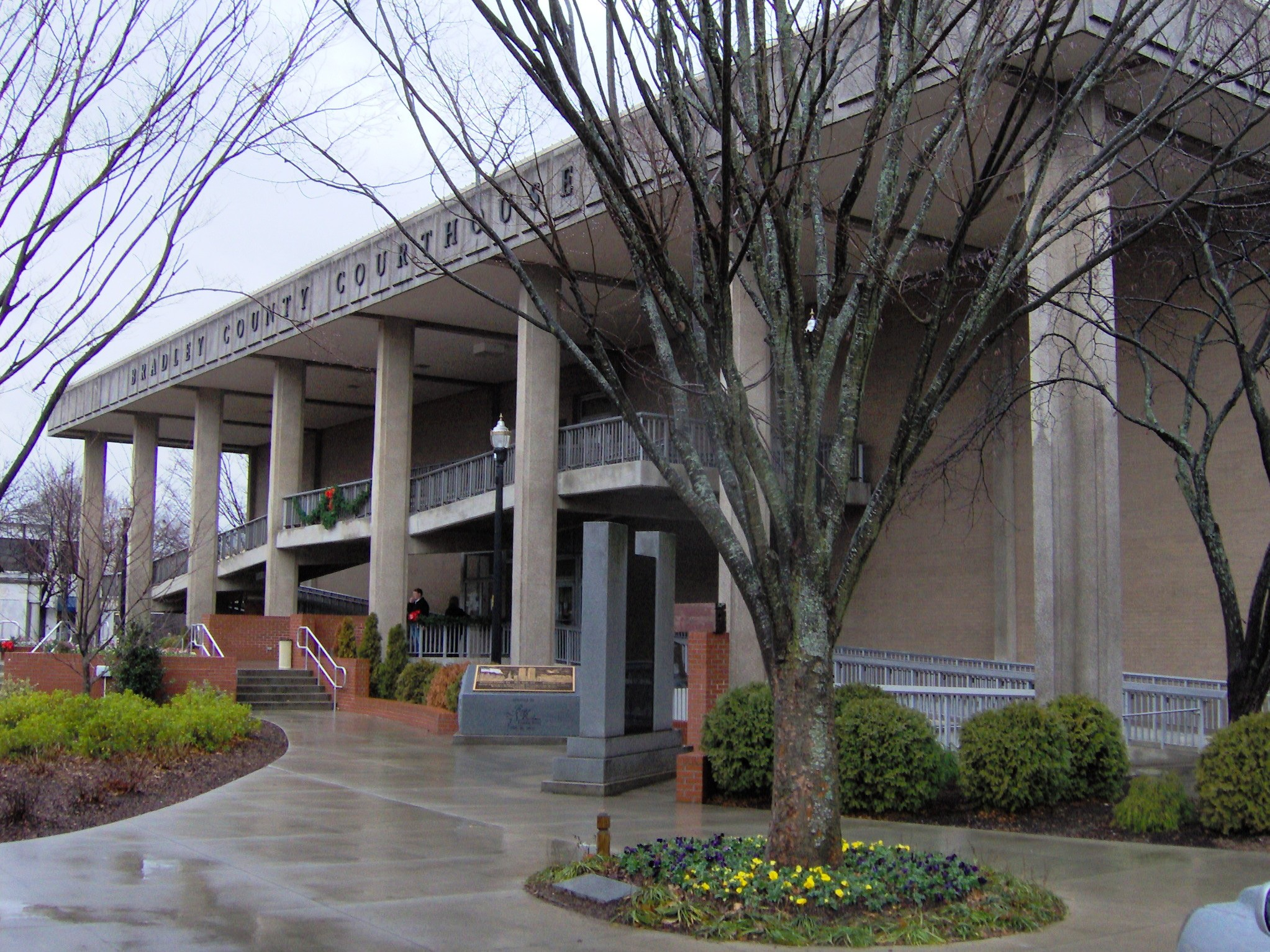 The Bradley County Courthouse in Cleveland, Tennessee, in the southeastern United States.